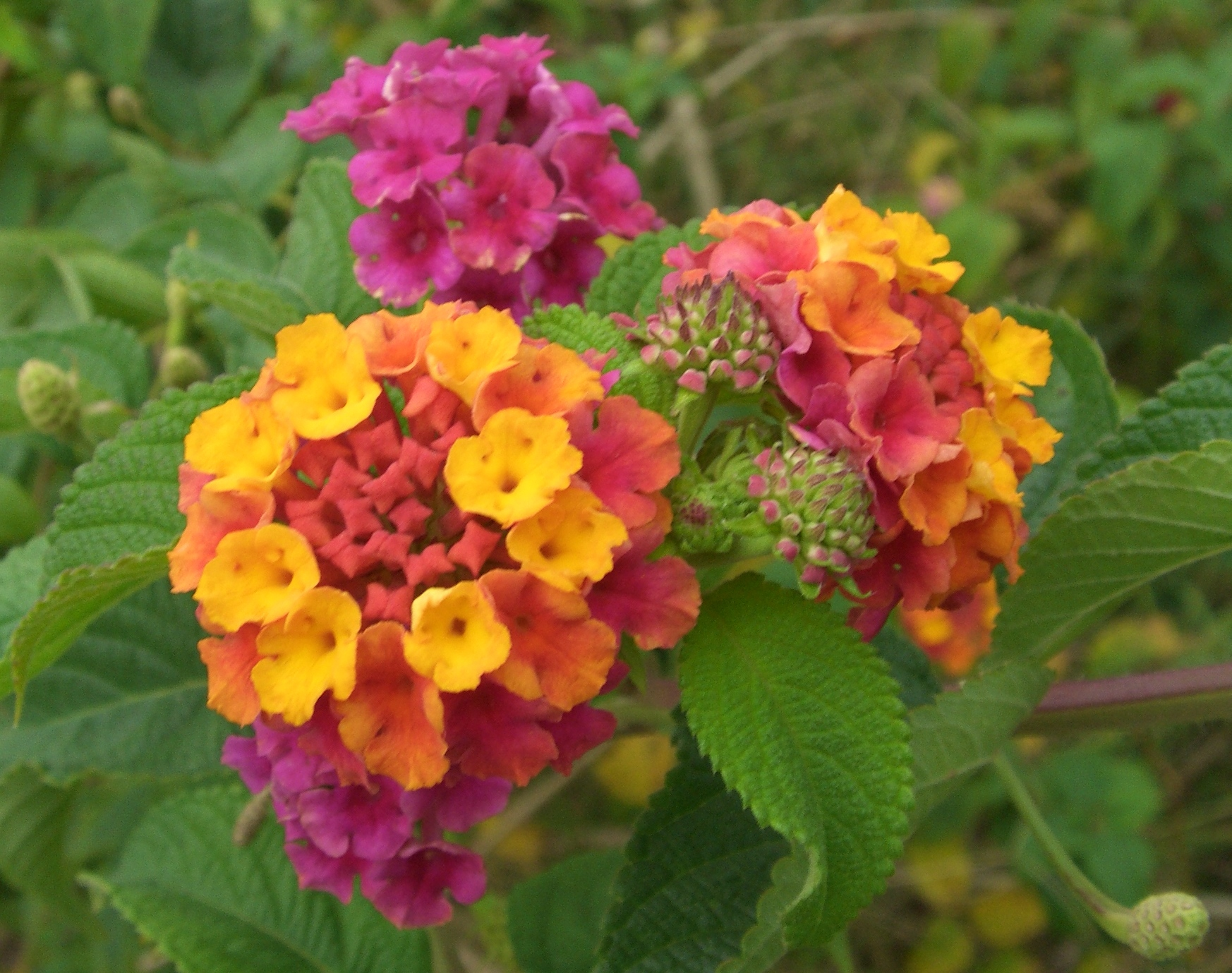 Lantana camara taken at the Çukurova University Campus in Adana Province of Turkey.